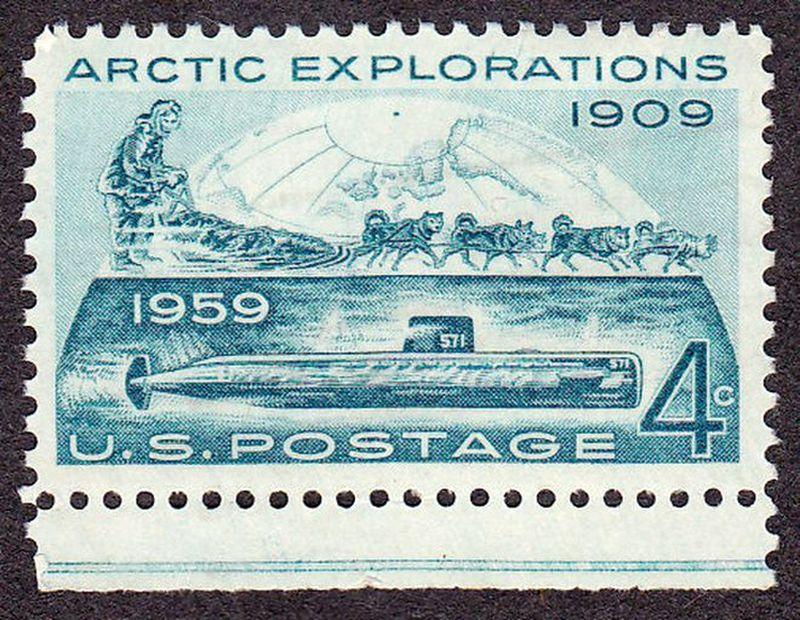 US Postage stamp, 1959 issue, 4c, Arctic Exploration commemorative